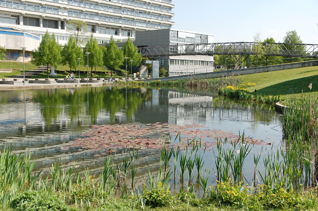 Pictures